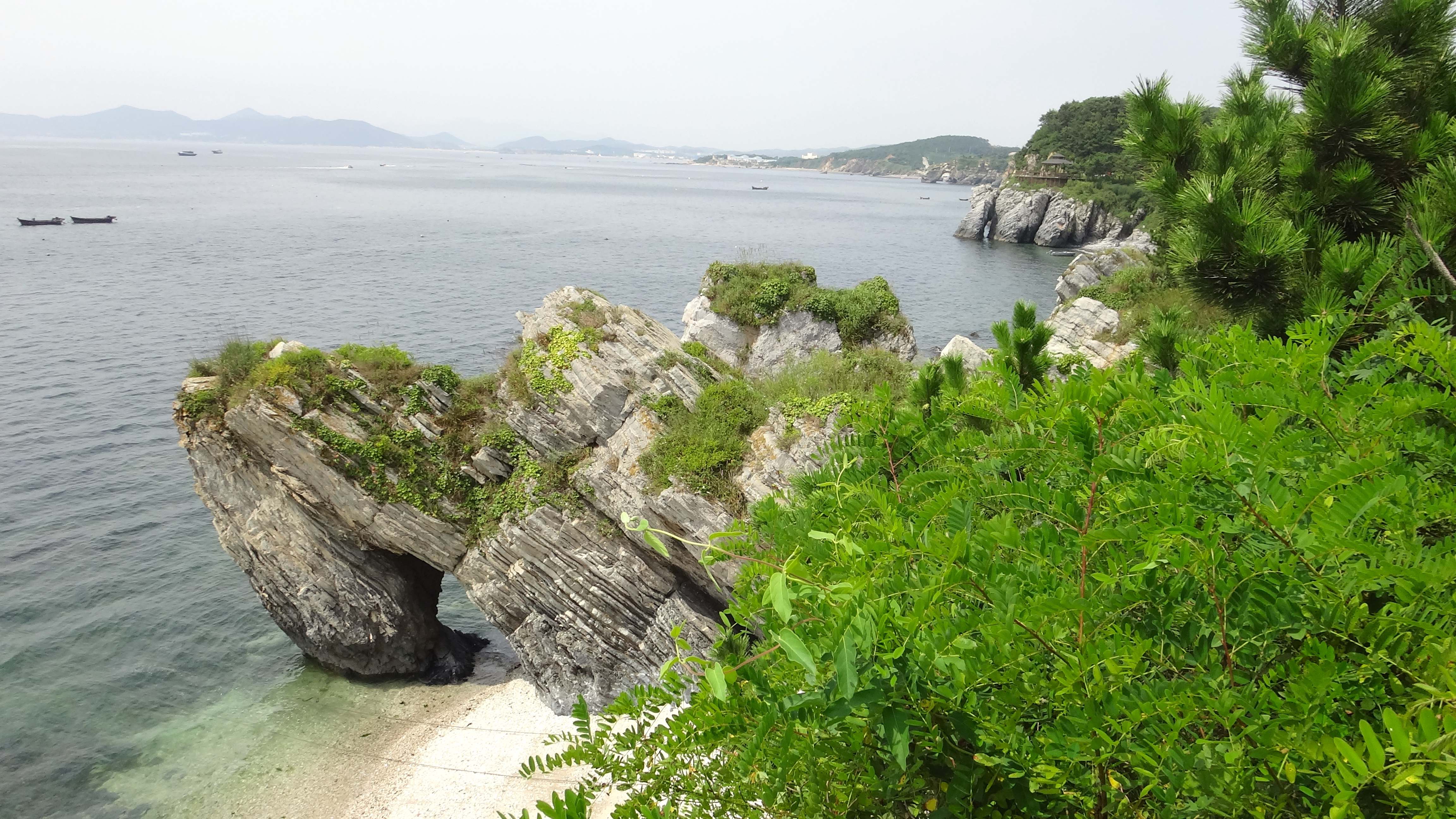 Topography:Sea Cave Age:600-800 million years ago, Sinian